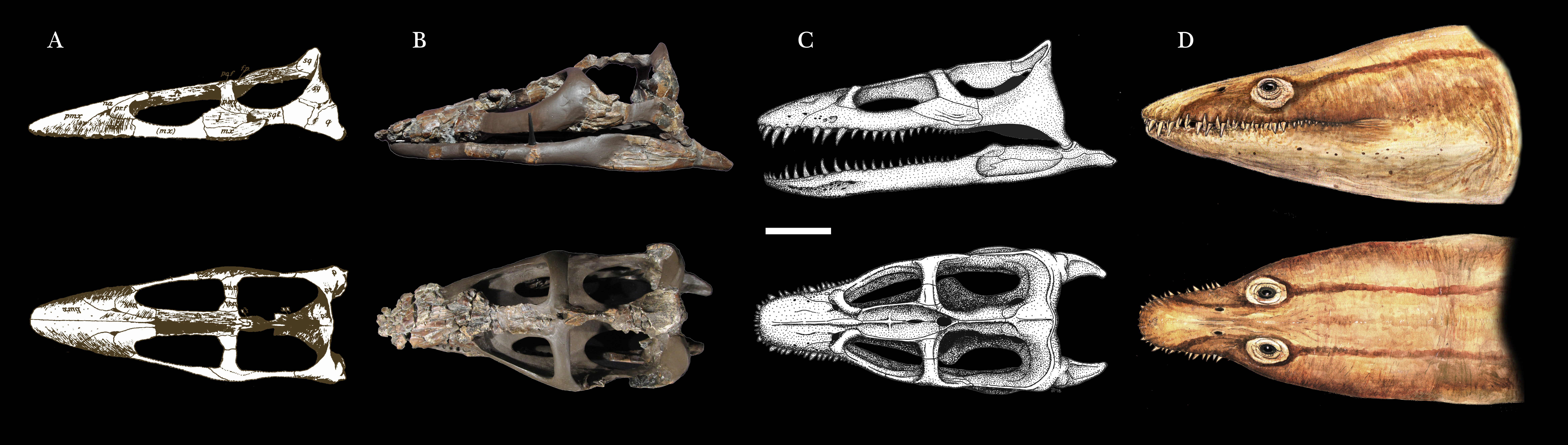 Reconstructing Brancasaurus in several stages. a) skull interpreted by Wegener, b) present condition of the fossil material, b) interpretation after Sachs et al. (2016), d) life restoration.